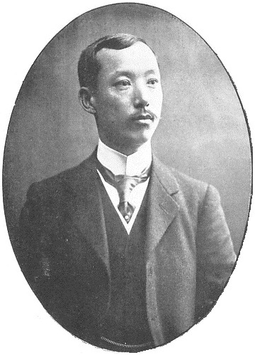 Masayuki Sengoku